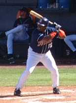 Tony Gwynn of the San Diego Padres